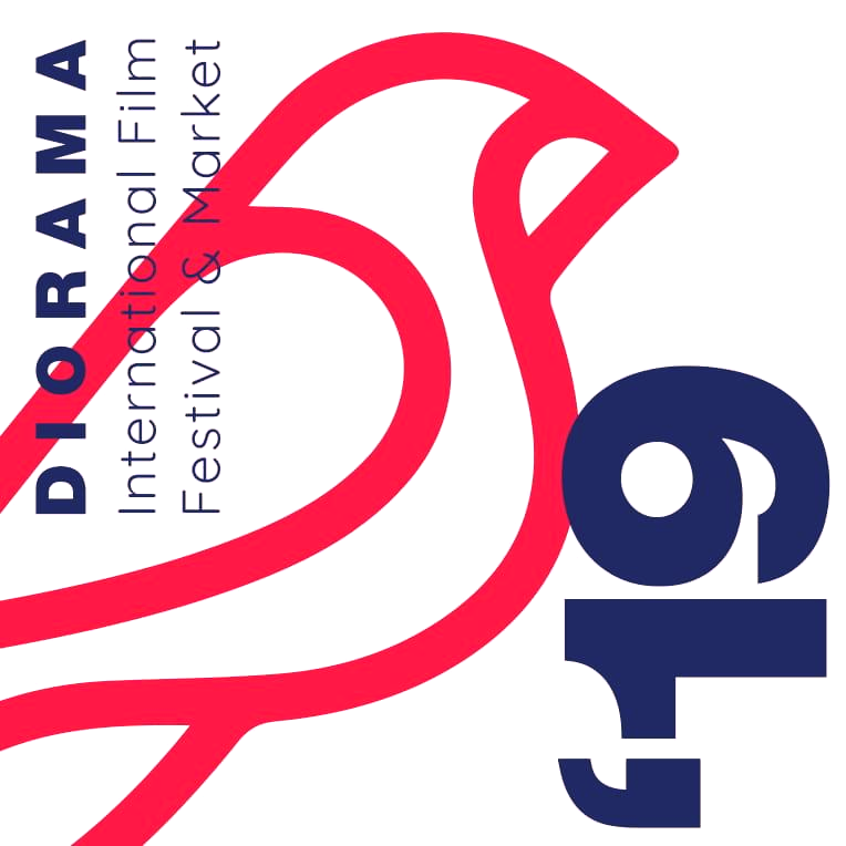 This is the logo of Diorama International Film Festival & Market which is held every year in New Delhi, India